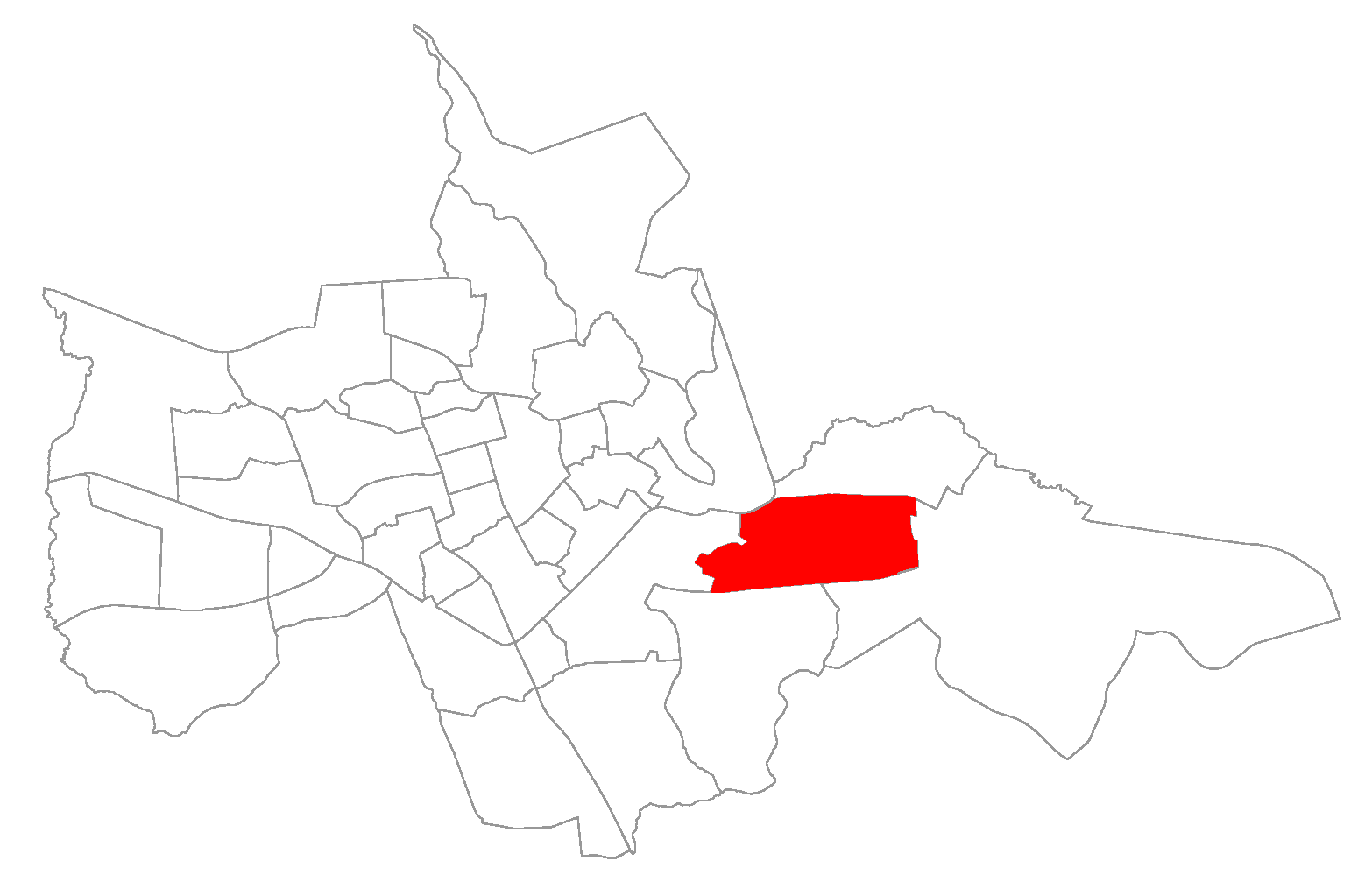 neighborhood/district of Santa Maria, Rio Grande do Sul